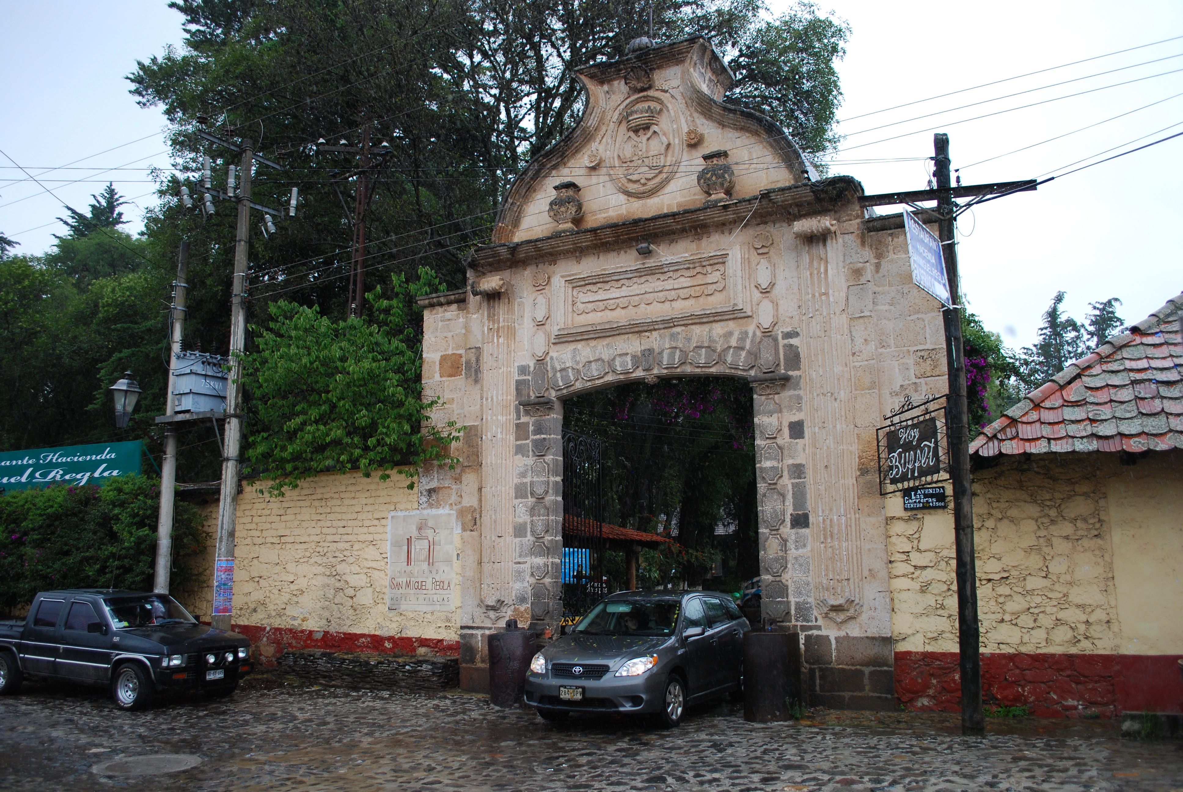 Hacienda entrance of San Miguel Regla, Huasca de Ocampo, Hidalgo, Mexico